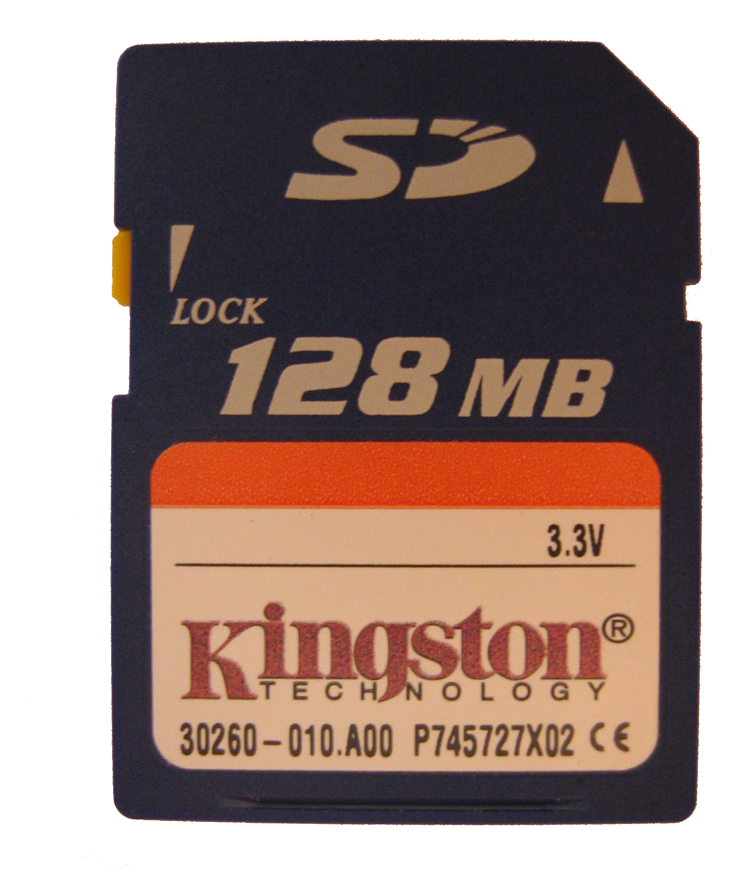 Description: 128MByte SD Card (Secure Digital Card) made by Kingston Source: self-made Date: 2005-11-21 Photographer: Jere Toivonen - Flamero 00:14, 21 November 2005